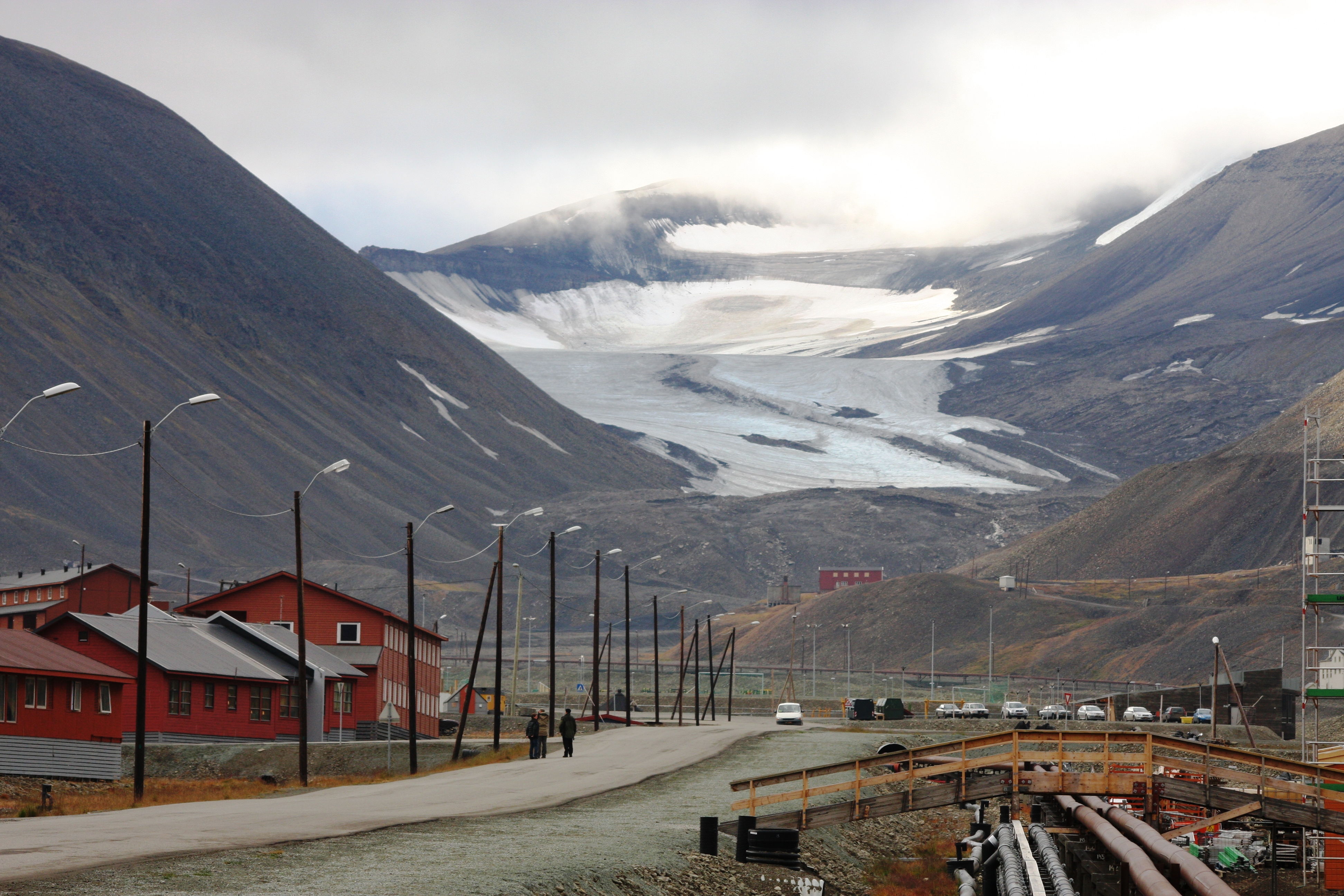 Mountain and glacier in Longyeardalen near Longyearbyen, Nordenskiöld Land (Svalbard)